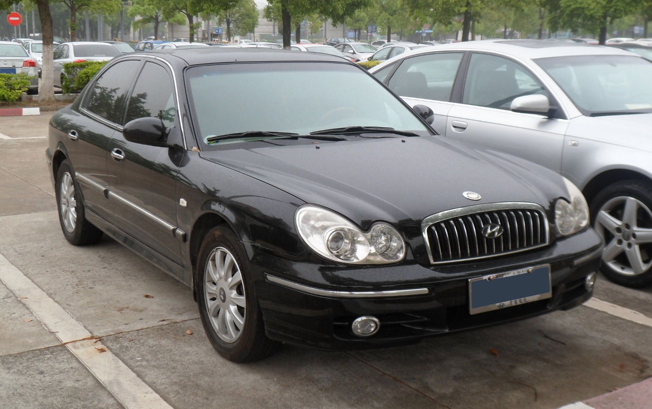 Hyundai Sonata EF facelift photographed in Shanghai, China.